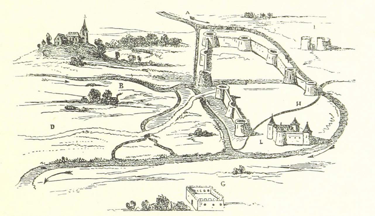 Map of Ghent in the 10th century; A = river Lys; B: river Scheldt